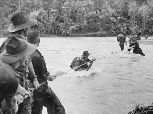 Australian infantry crossing the Ninahau River on 1 March 1945